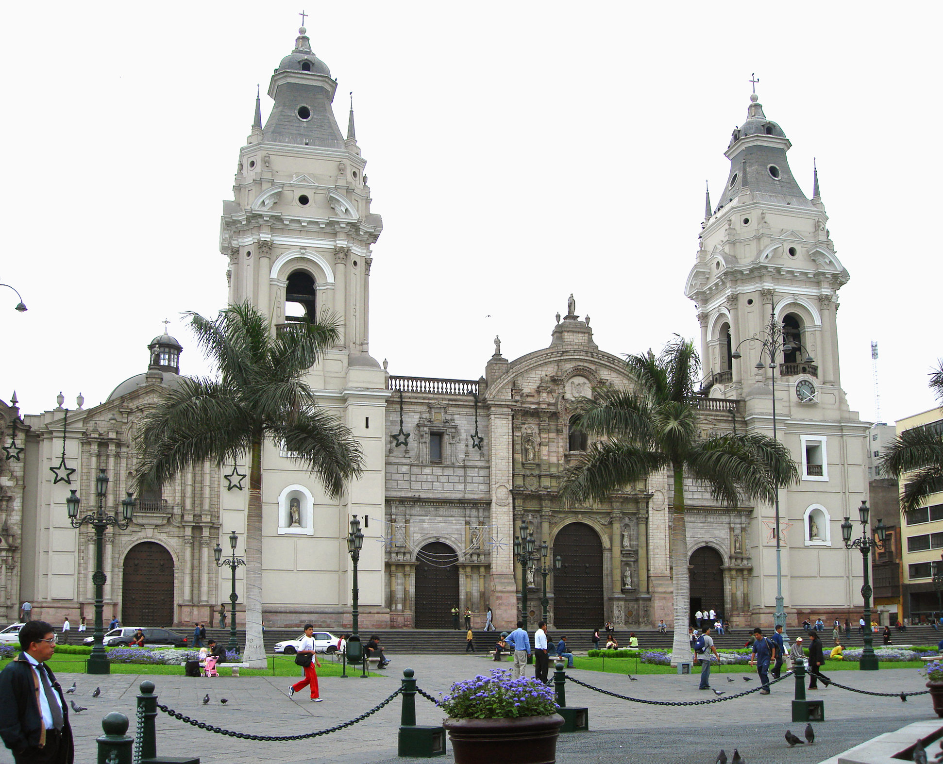 Description: Cathedral Place: Lima Country: Peru Photographer: Victoria Alexandra González Olaechea Yrigoyen Shot date : December, 6th, 2006